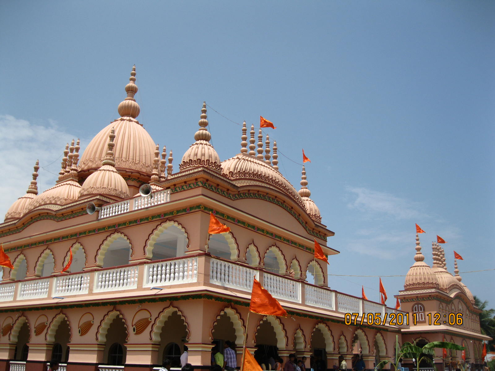 Present Image of Shanti Ashram, established by Swami Nigamananda in 1912, now completed 100 years of its life on Akshaya Tritiya 6 May 2011. This "Shanti Ashram" is now known as Assam Bangiya Saraswata Matha loacated at Jorhat, India.